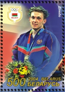 Belarus stamps no. 580, commemorate 2004 Summer Olympics champion in judo Ihar Makarau.